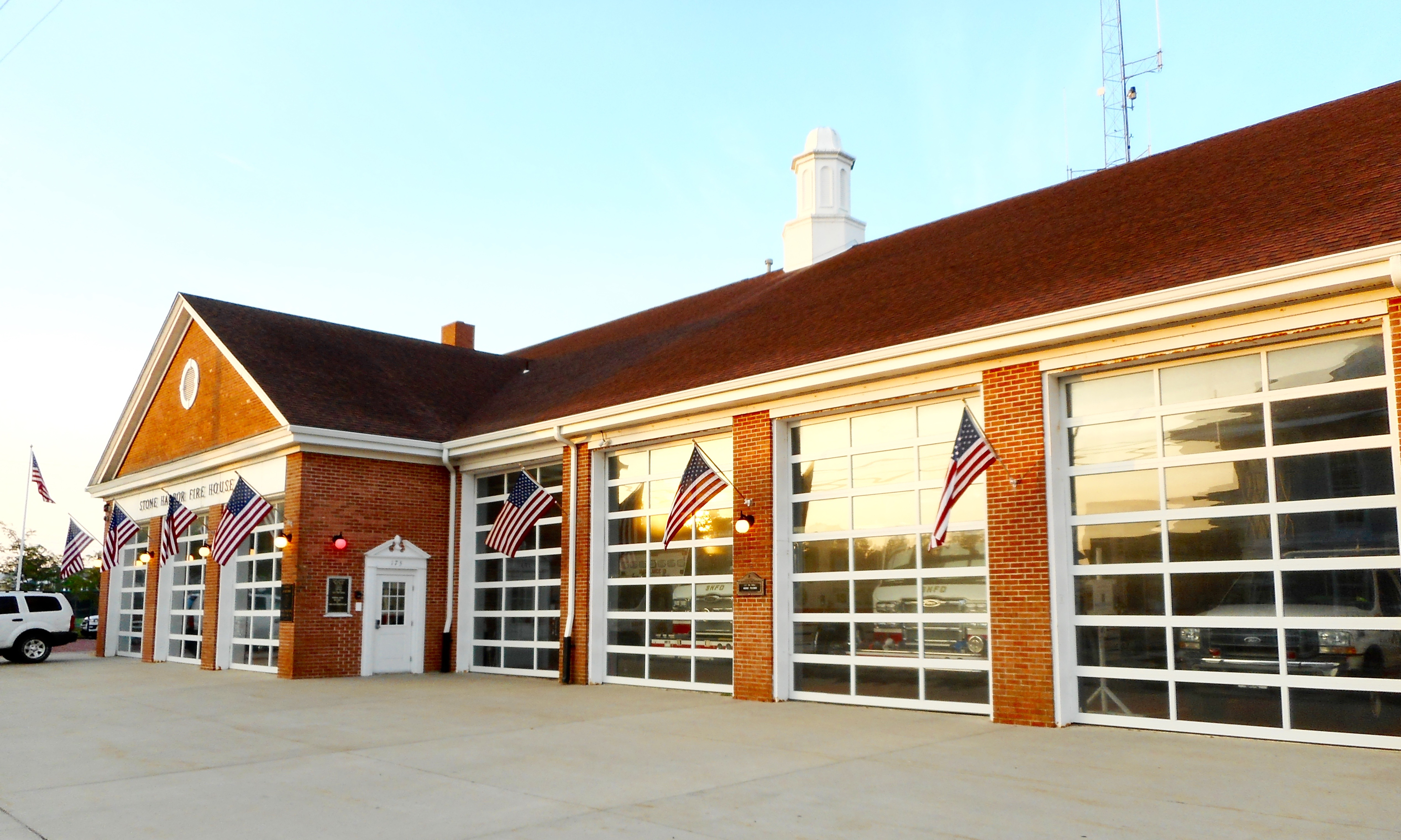 Stone Harbor Fire House in Stone Harbor New Jersey.